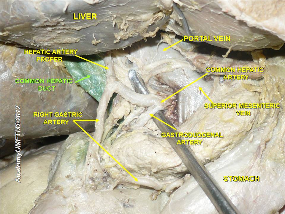 Anatomical dissections